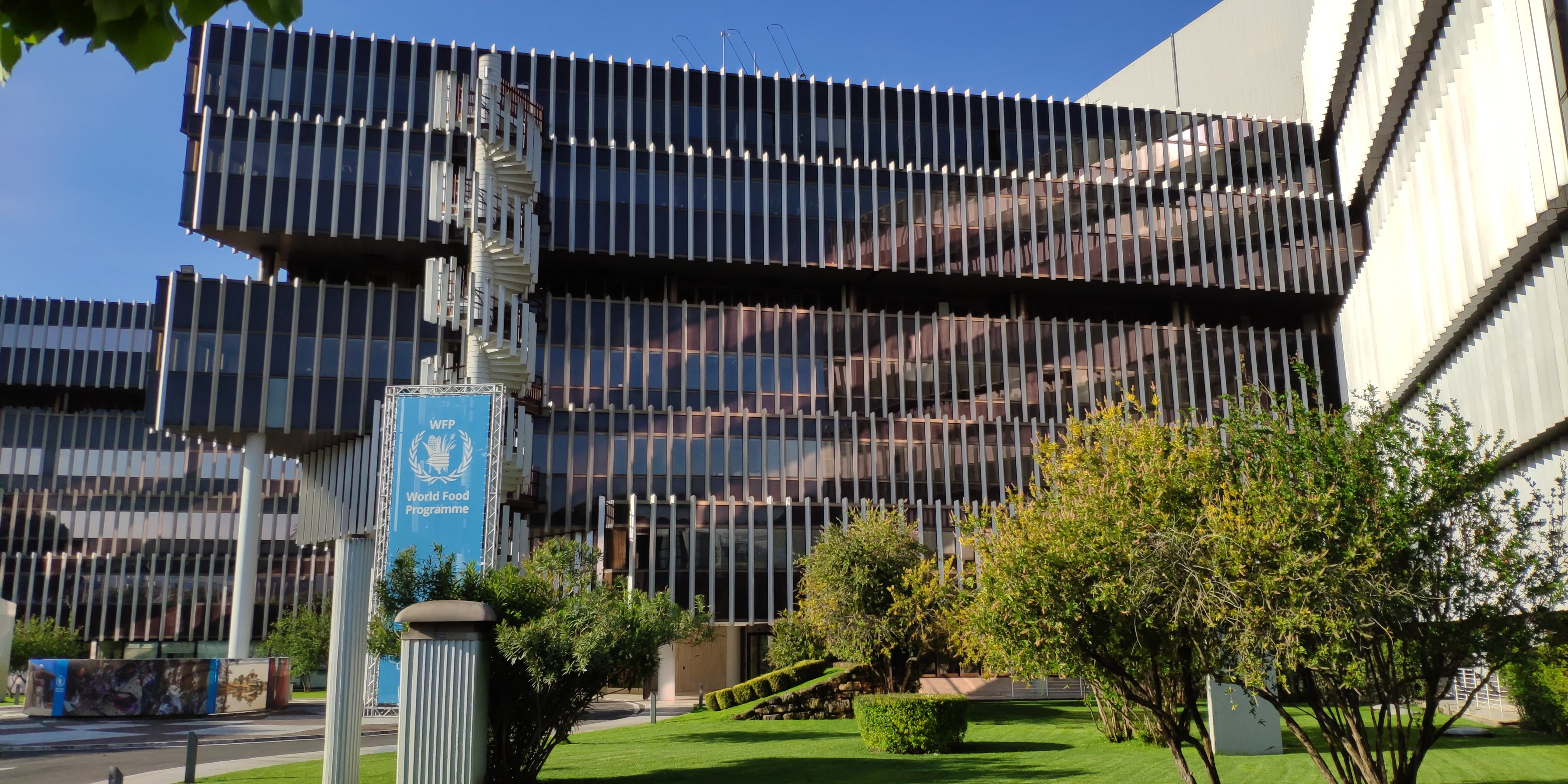 The World Food Programme (WFP) headquarter in Rome